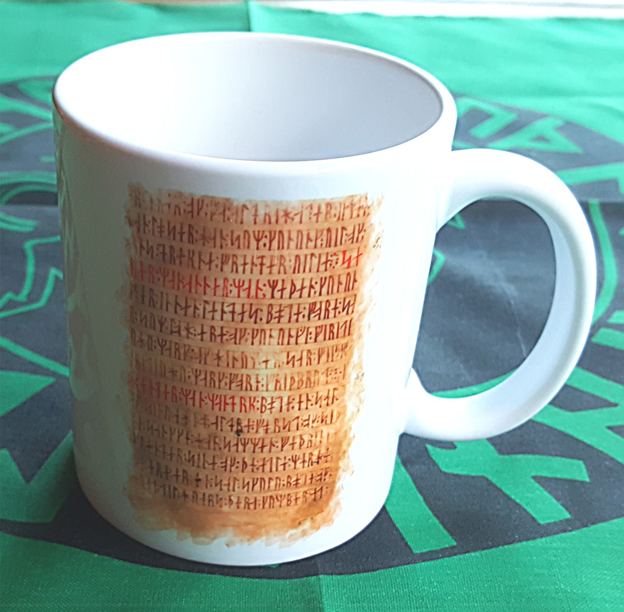 Mug with the medieval runes of the 55th page of the Codex Runicus.